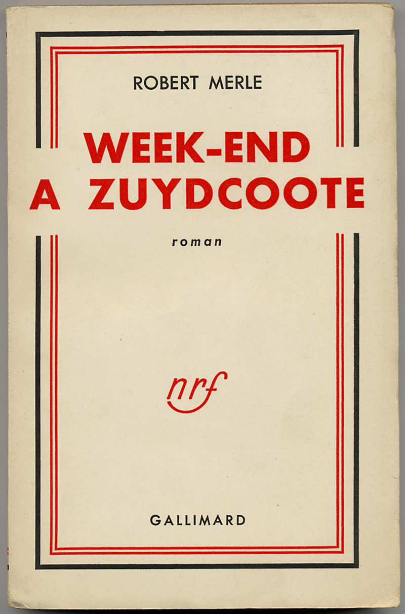 My exemplary of the cover of the Robert Merle's book "Week-end a Zuydcoote", Gallimard, 1949. Goncourt price in 1949